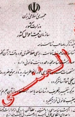 Stamp meaning that this shenasnameh isn't the origianl one